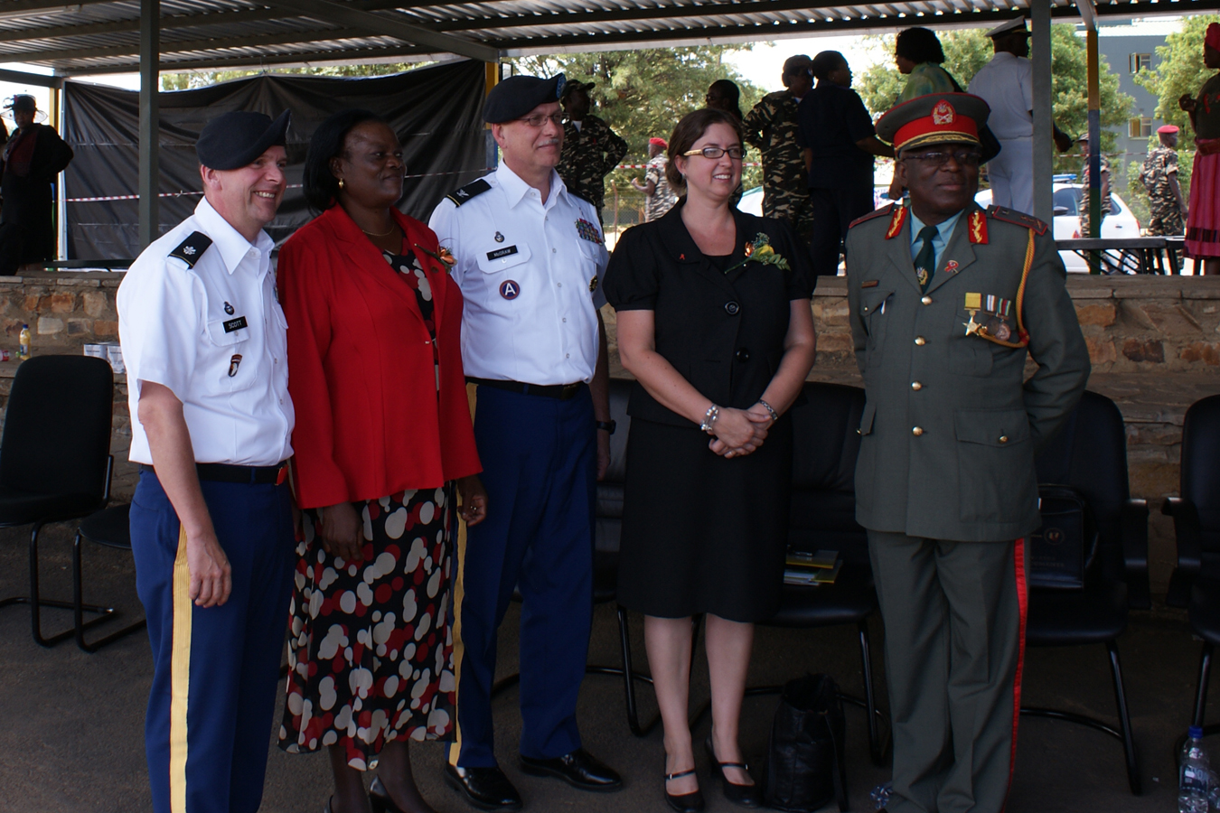 General Kambonde at the NDF Amy HQ in Grootfontein